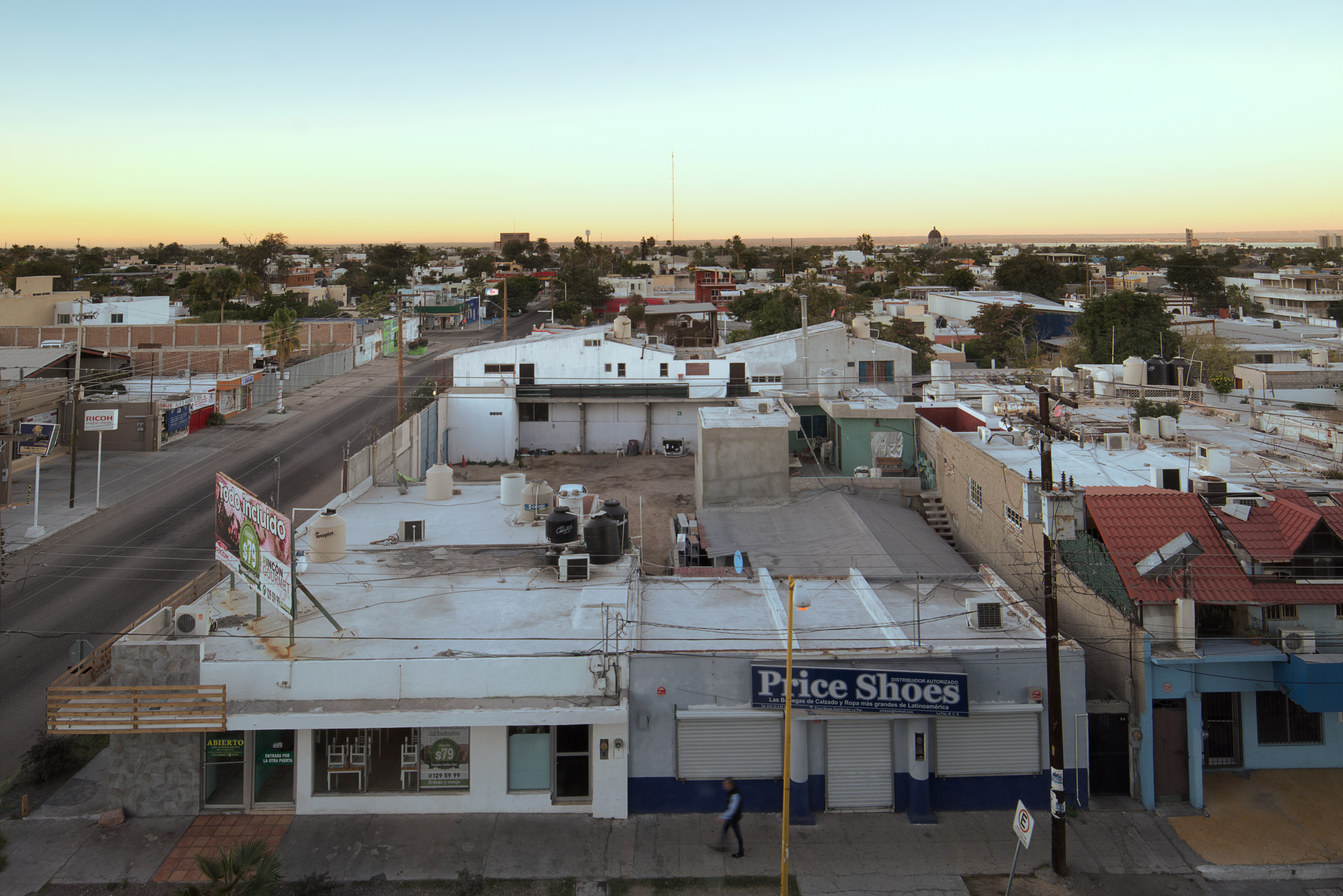 View of La Paz city from hotel One